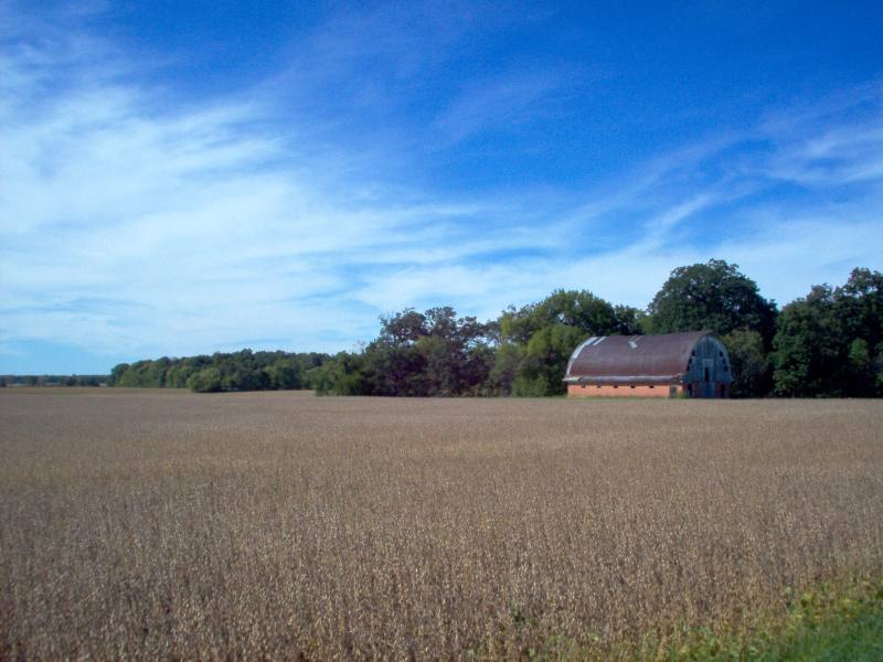 Autumn Soybean fields awaiting harvest in Blackford County Indiana. Picture taken 29 September 2005 by Jonas Mannion.